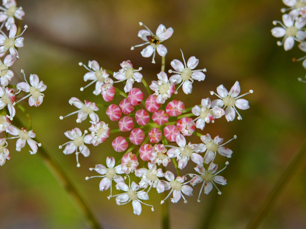 Peucedanum cervaria - Piani di Praglia. Genova, Italy